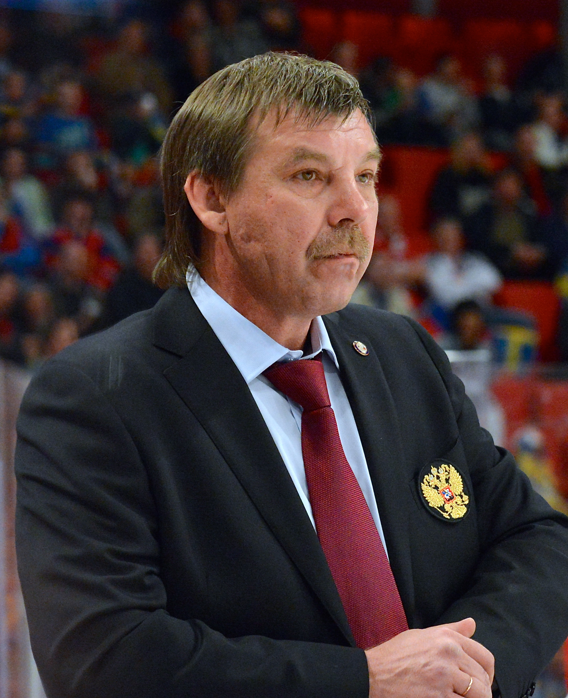 Oļegs Znaroks during Oddset Hockey Games against Russia (2-0) at the Ericsson Globe in Stockholm on May 4th, 2014.